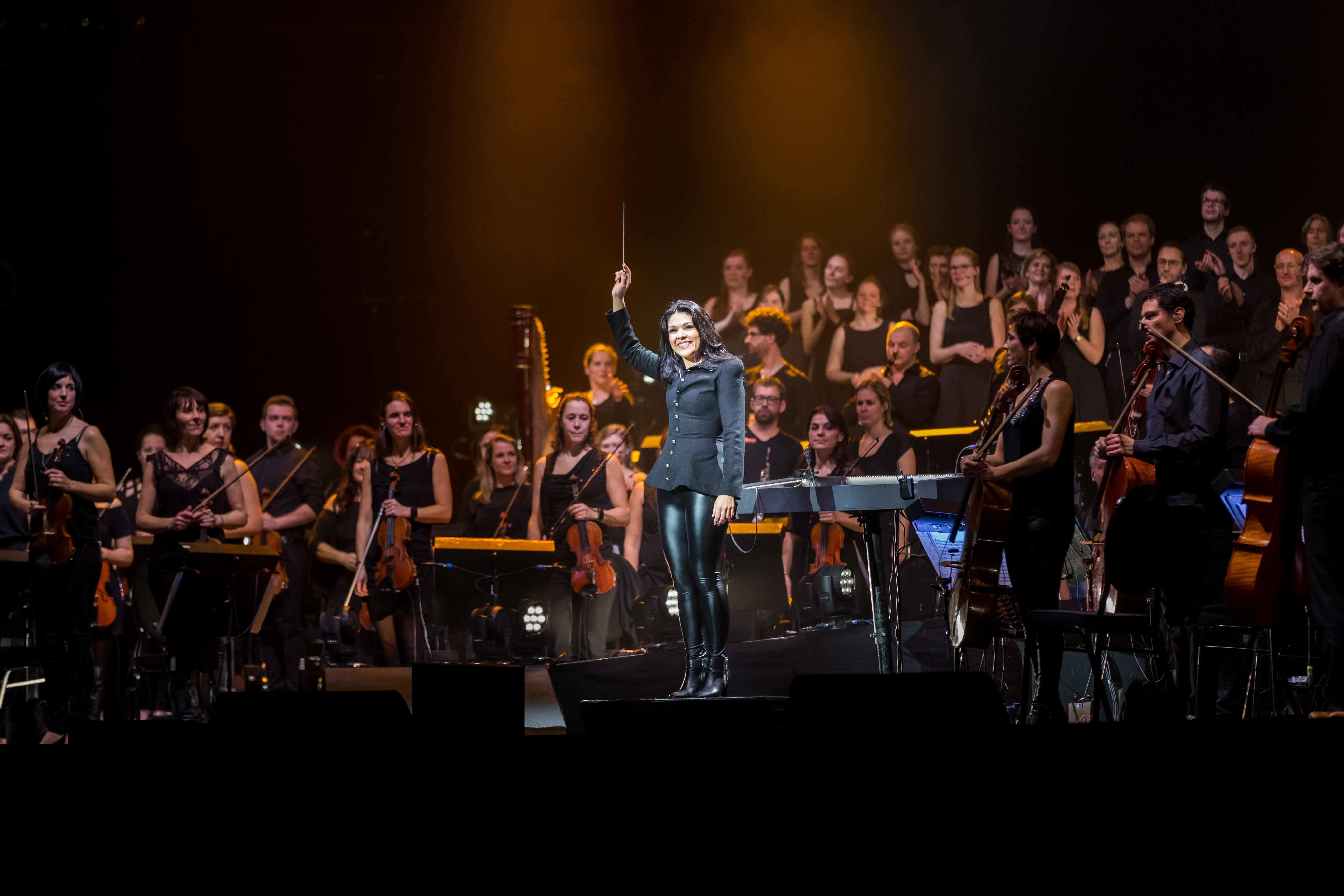 Alexandra Arrieche during Night of the Proms at SAP Arena, Mannheim, Baden-Württemberg, Germany on 2017-12-22, Photo: Sven Mandel